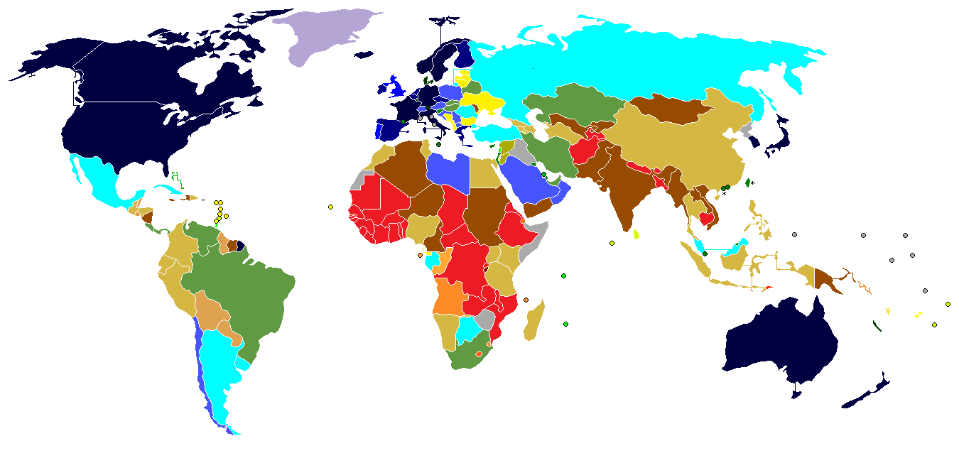 capita 2012